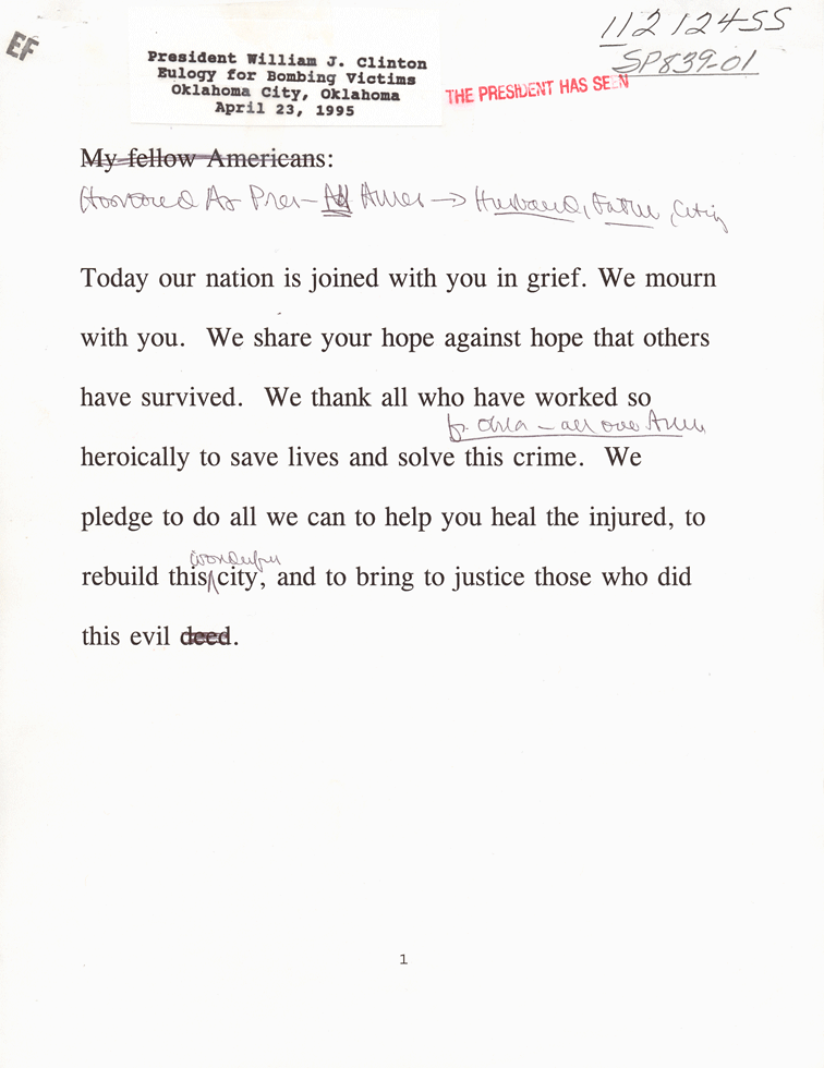 The United States President Bill Clinton's address to the victims of the Oklahoma City Bombing terrorist attack on April 23, 1995.